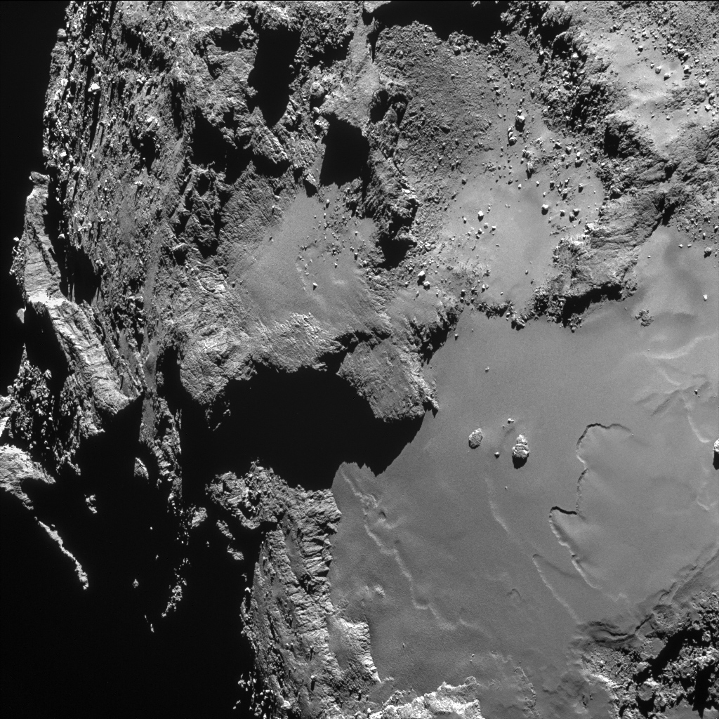 This single frame Rosetta navigation camera image was taken from a distance of 15.3 km from the surface of Comet 67P/Churyumov-Gerasimenko, at 16:12 GMT on 14 February 2015. The 1024 x 1024 pixel image frame has a resolution of 1.3 m/pixel and measures 1.3 km across. More information and the original image via the blog: CometWatch: The challenges of a close flyby Credits: ESA/Rosetta/NAVCAM – CC BY-SA IGO 3.0 This work is licenced under the Creative Commons Attribution-ShareAlike 3.0 IGO (CC BY-SA 3.0 IGO) licence. The user is allowed to reproduce, distribute, adapt, translate and publicly perform this publication, without explicit permission, provided that the content is accompanied by an acknowledgement that the source is credited as 'ESA - European Space Agency’, a direct link to the licence text is provided and that it is clearly indicated if changes were made to the original content. Adaptation/translation/derivatives must be distributed under the same licence terms as this publication. The user must not give any suggestion that ESA necessarily endorses the modifications that you have made. No warranties are given. The license may not give you all of the permissions necessary for your intended use. For example, other rights such as publicity, privacy, or moral rights may limit how you use the material. To view a copy of this license, please visit